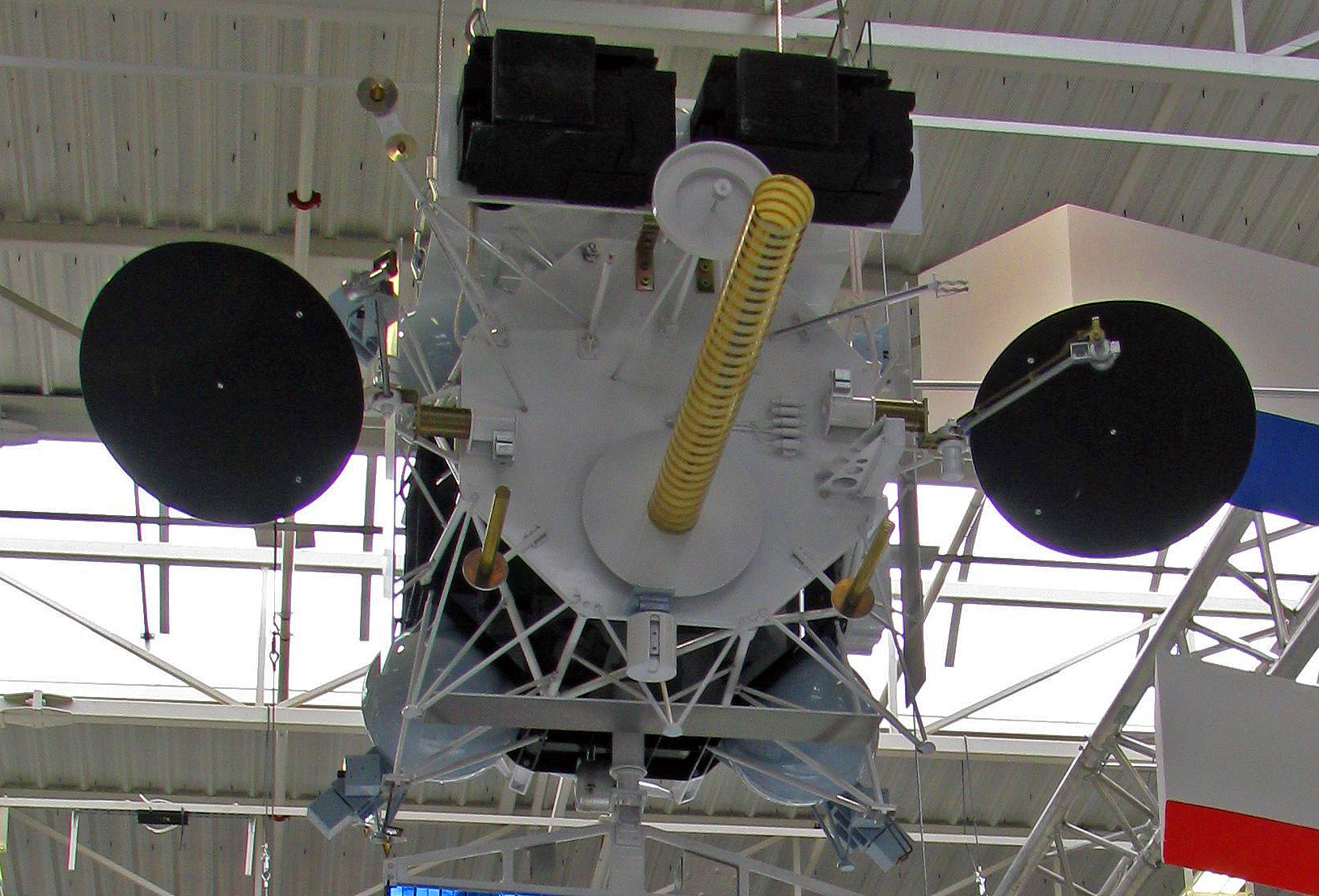 Model of Electro-L Russian meteorological satellite at Paris Air Show 2011